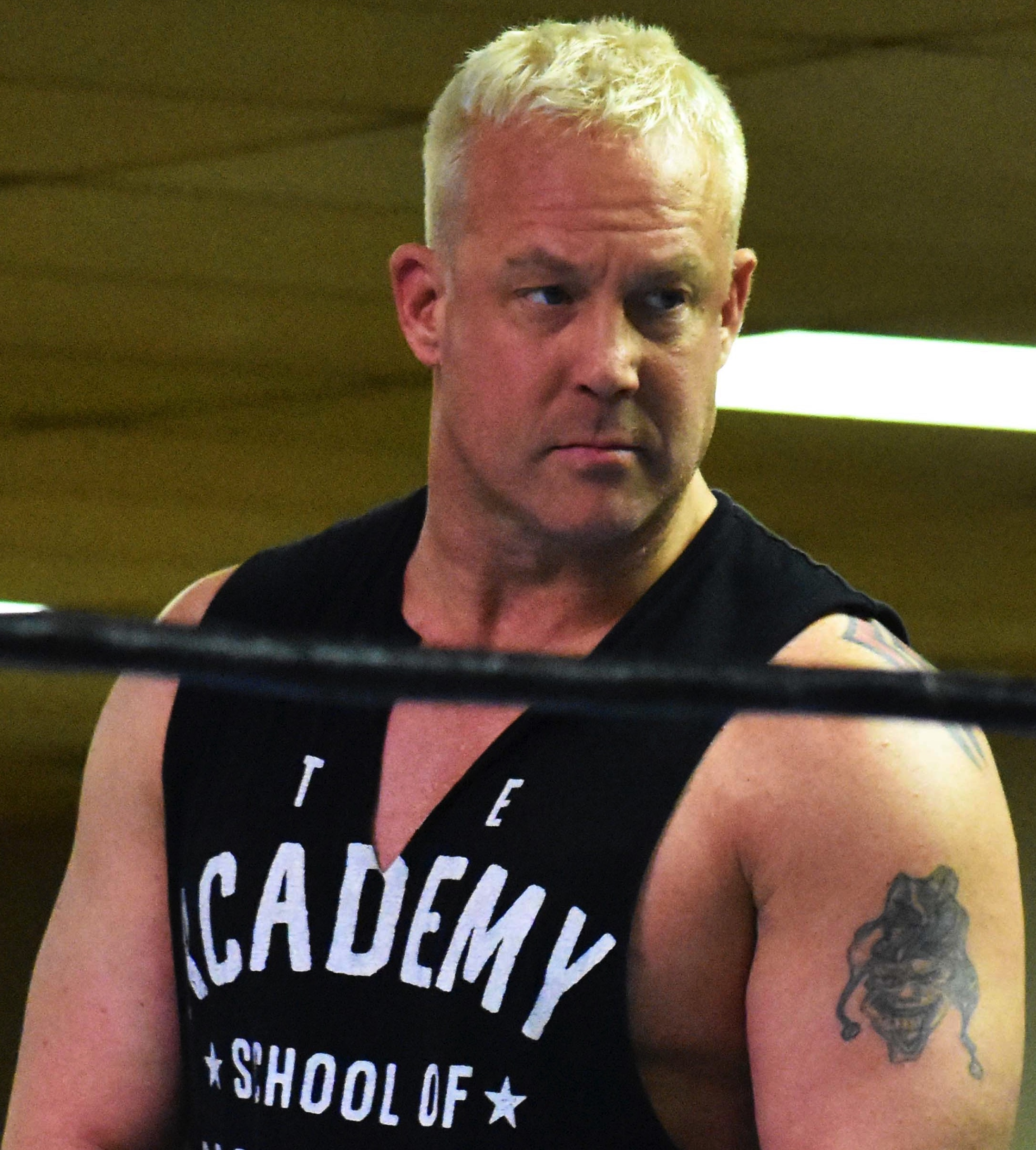 Ken Anderson appearing at Great Lake Championship Wrestling's "4 Life" pro-wrestling event in Cedarburg, Wisconsin on March 23, 2019.